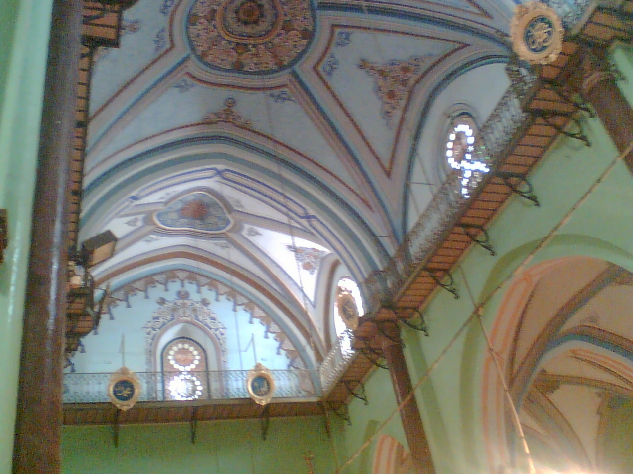 Ibrahimi Mosque